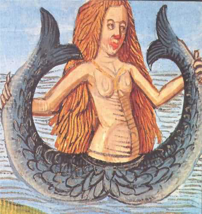 Twin-tailed Siren or Mermaid, illustration in Hortus Sanitatis.